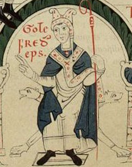 Bishop Godfrey of Canossa. Possibly a brother of Tedald of Canossa